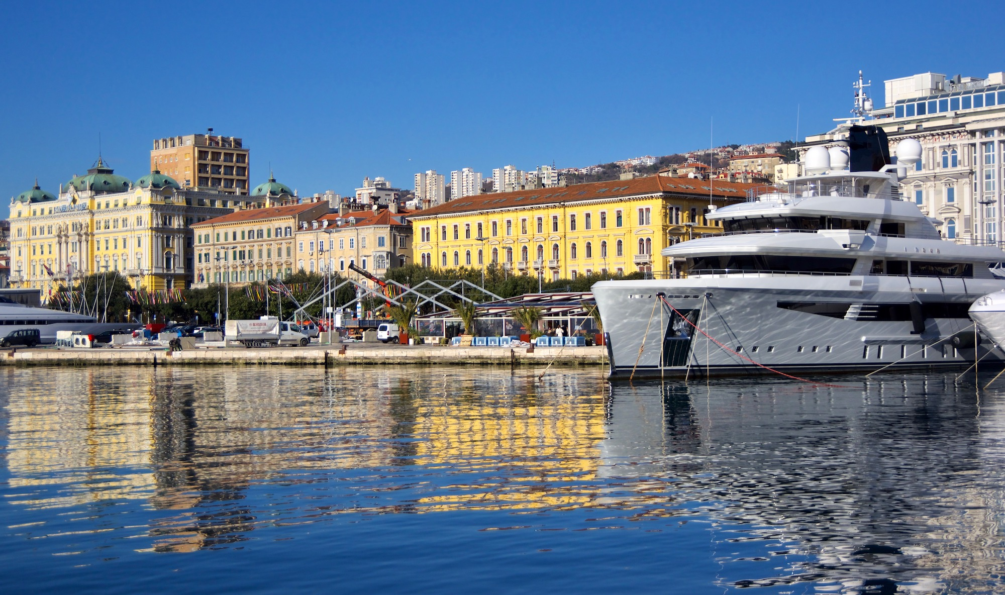 Rijeka Riva promenade